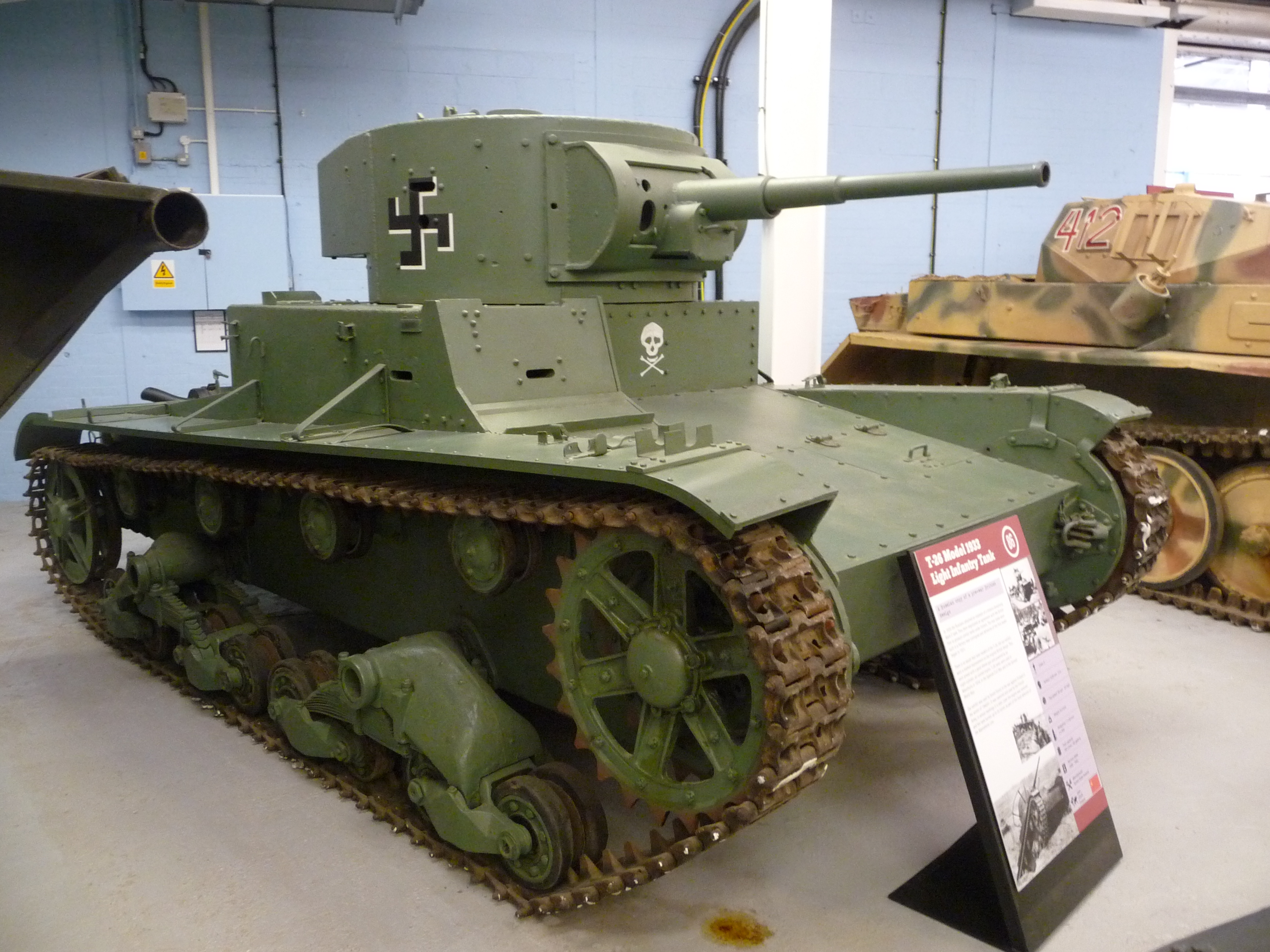 Ex-Finnish T-26 Model 1933 light tank in the Bovington Tank Museum.